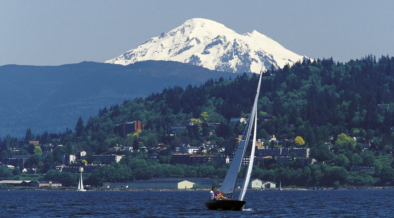 A sail boat races across Bellingham Bay in northern Puget Sound with Mt. Baker in the background. Boating is a hugely popular recreational activity on Puget Sound. Learn more about the Puget Sound Ecosystem Learn more about EPA